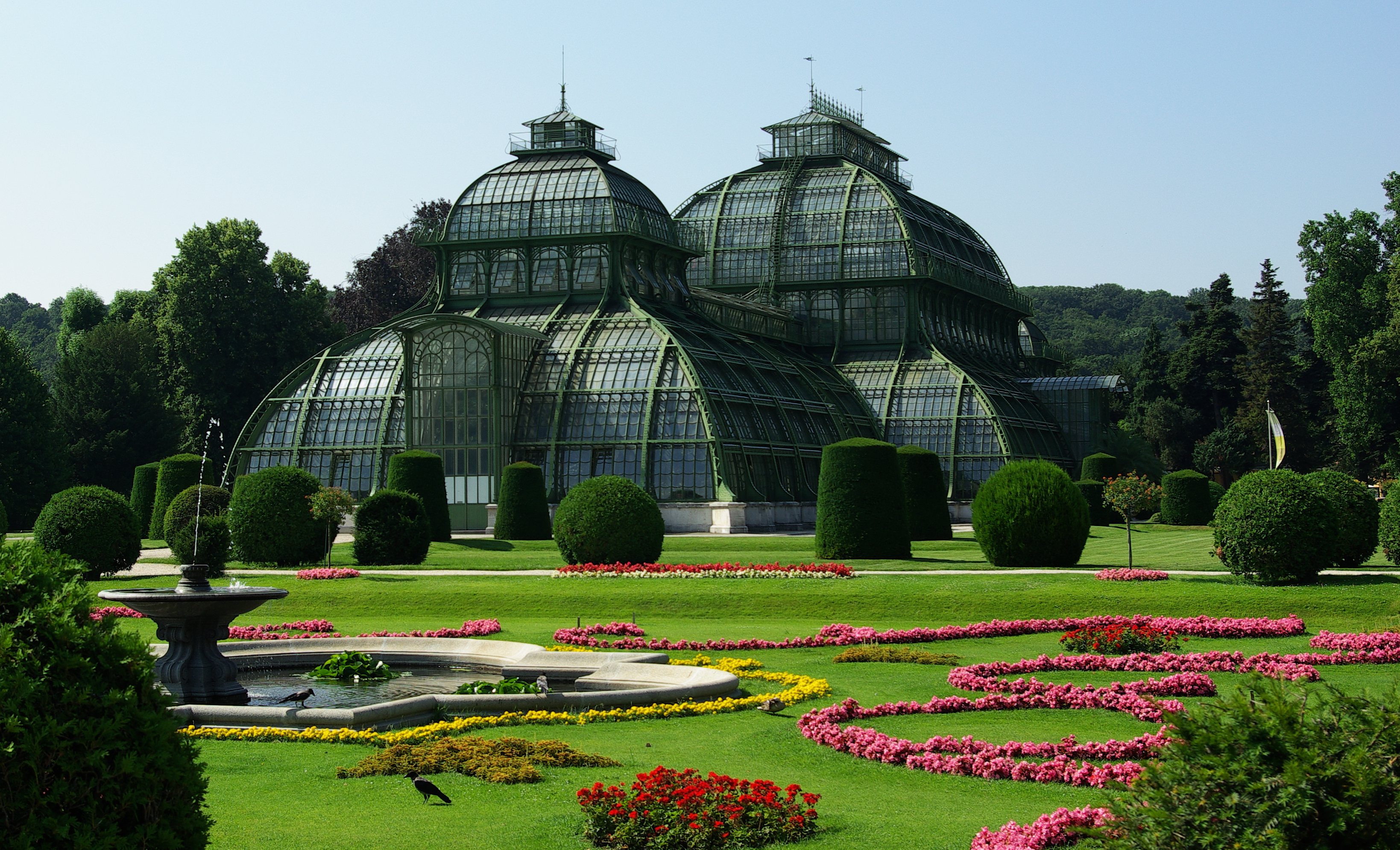 Palm House (Schönbrunn) seen from Palm House Parterre (from app. N).jpg